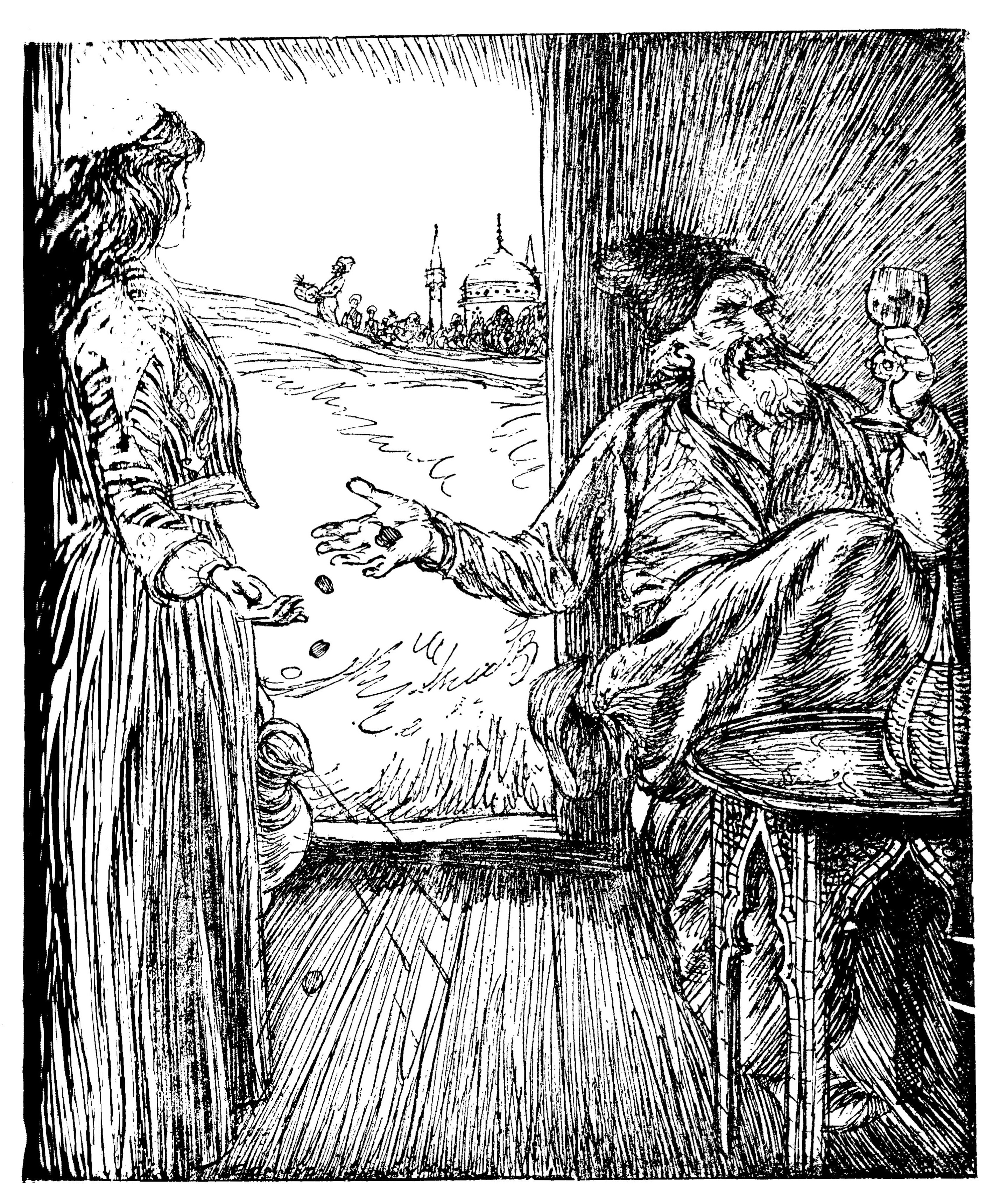 This is a quatrain illustration by Edmund J. Sullivan to the Rubaiyat of Omar Khayyam, First Version (translated by Edward Fitzgerald).